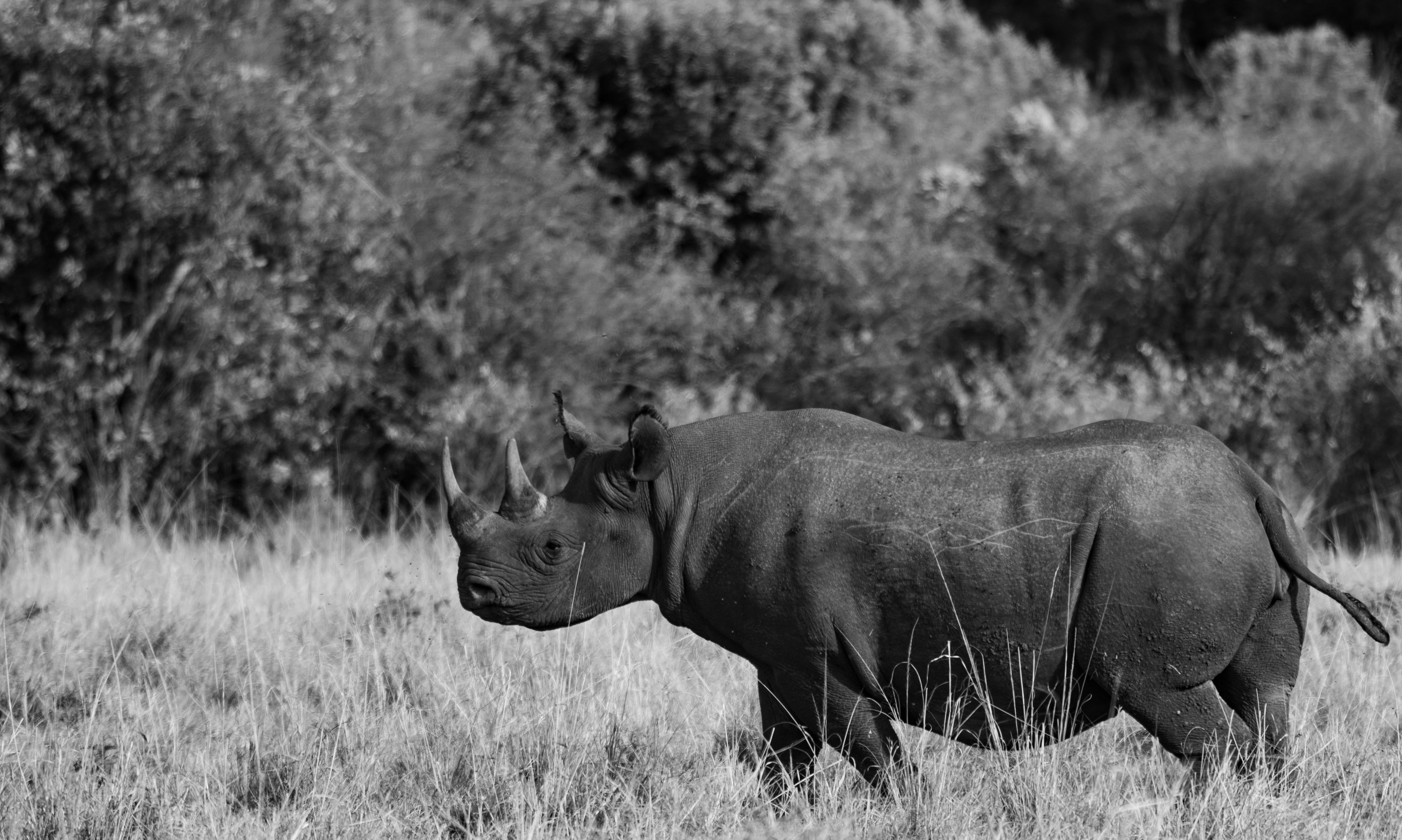 black rhino maasai marai